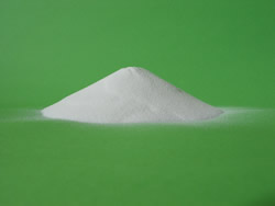 a pile of ammonium paratungstate